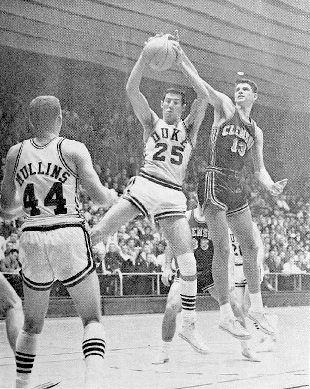 Art Heyman, #25 for the Duke Blue Devils, rebounds the ball during a home game against the Clemson Tigers on January 12, 1963.